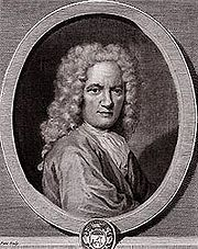 bookplate of french academic